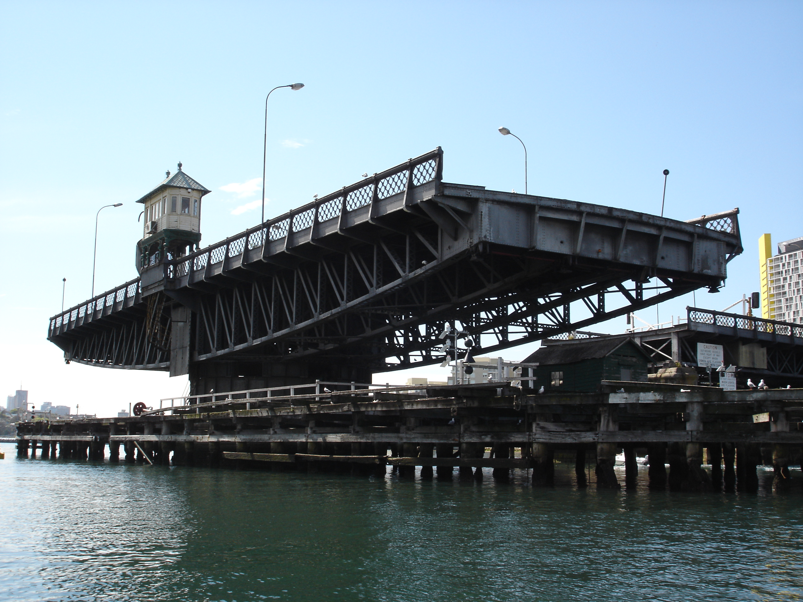 New South Wales. Picture taken 6/9/06 by user Amitch.